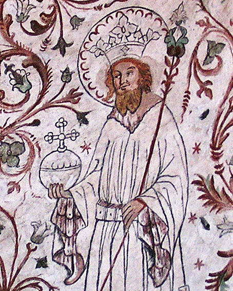 Eric IX of Sweden in Överselö kyrka